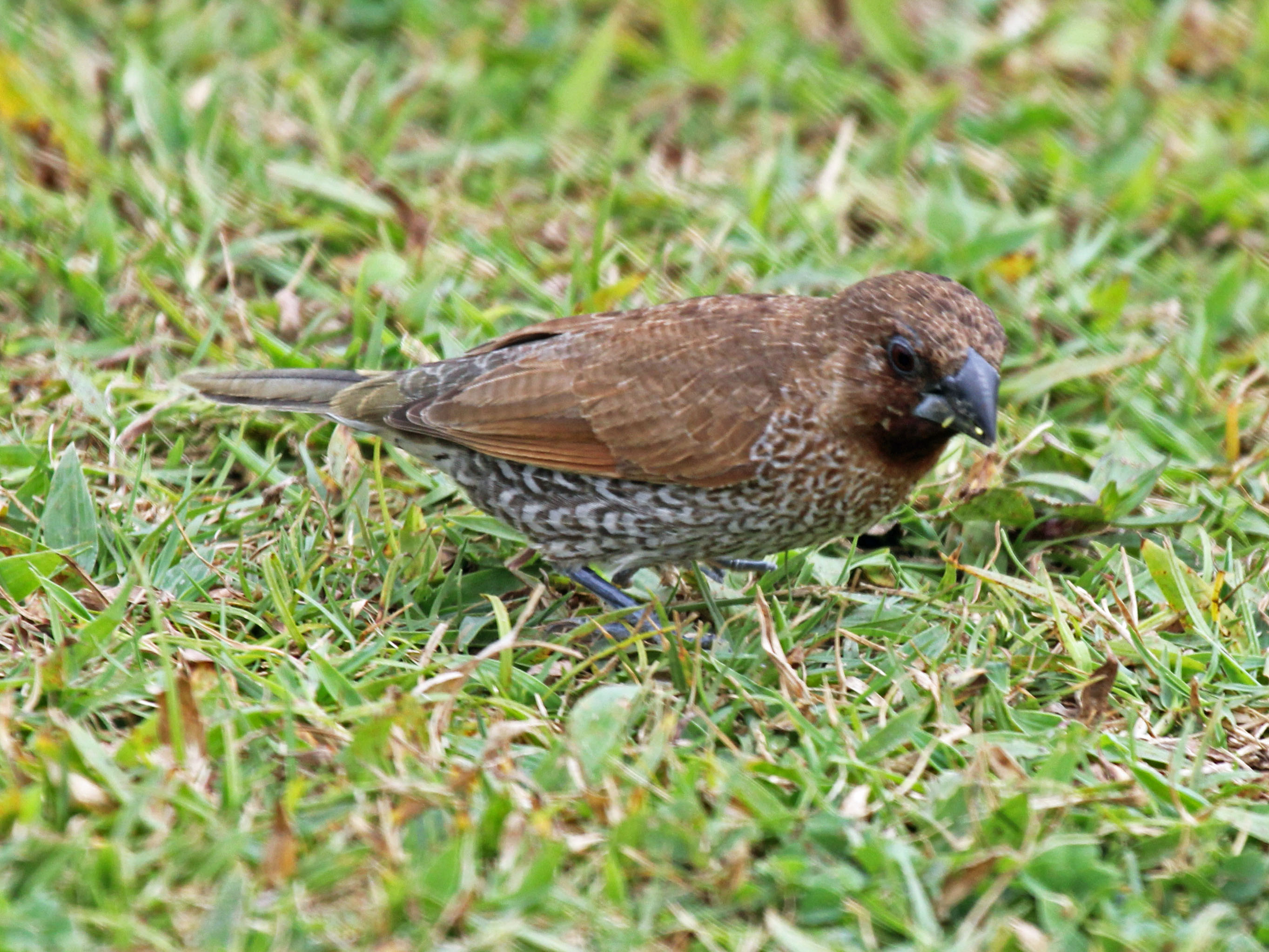 Scaly-breasted Munia or Spotted Munia or Nutmeg Mannikin (Lonchura punctulata) - Kauai, Hawaii